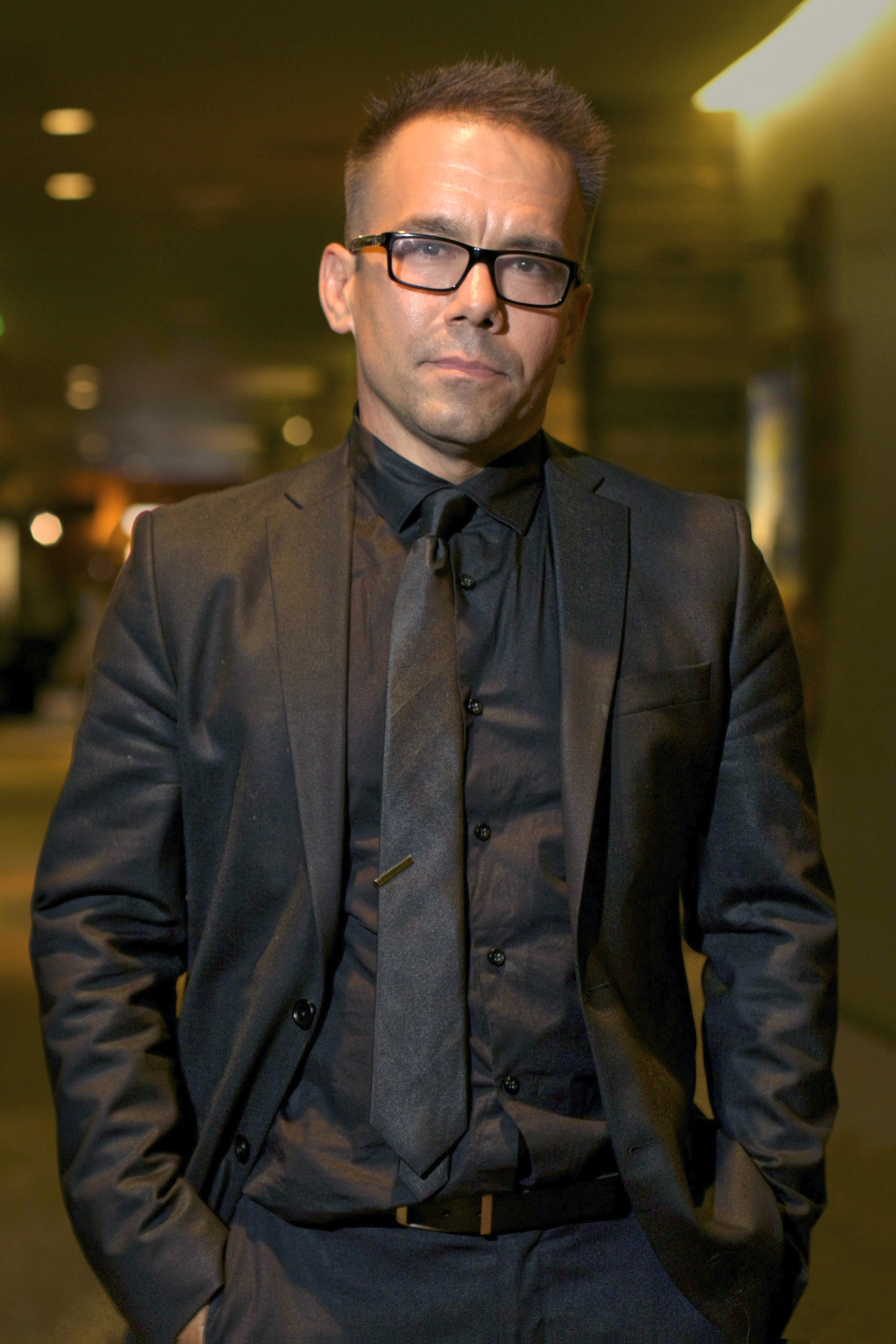 Filmmaker Sean S. Welling